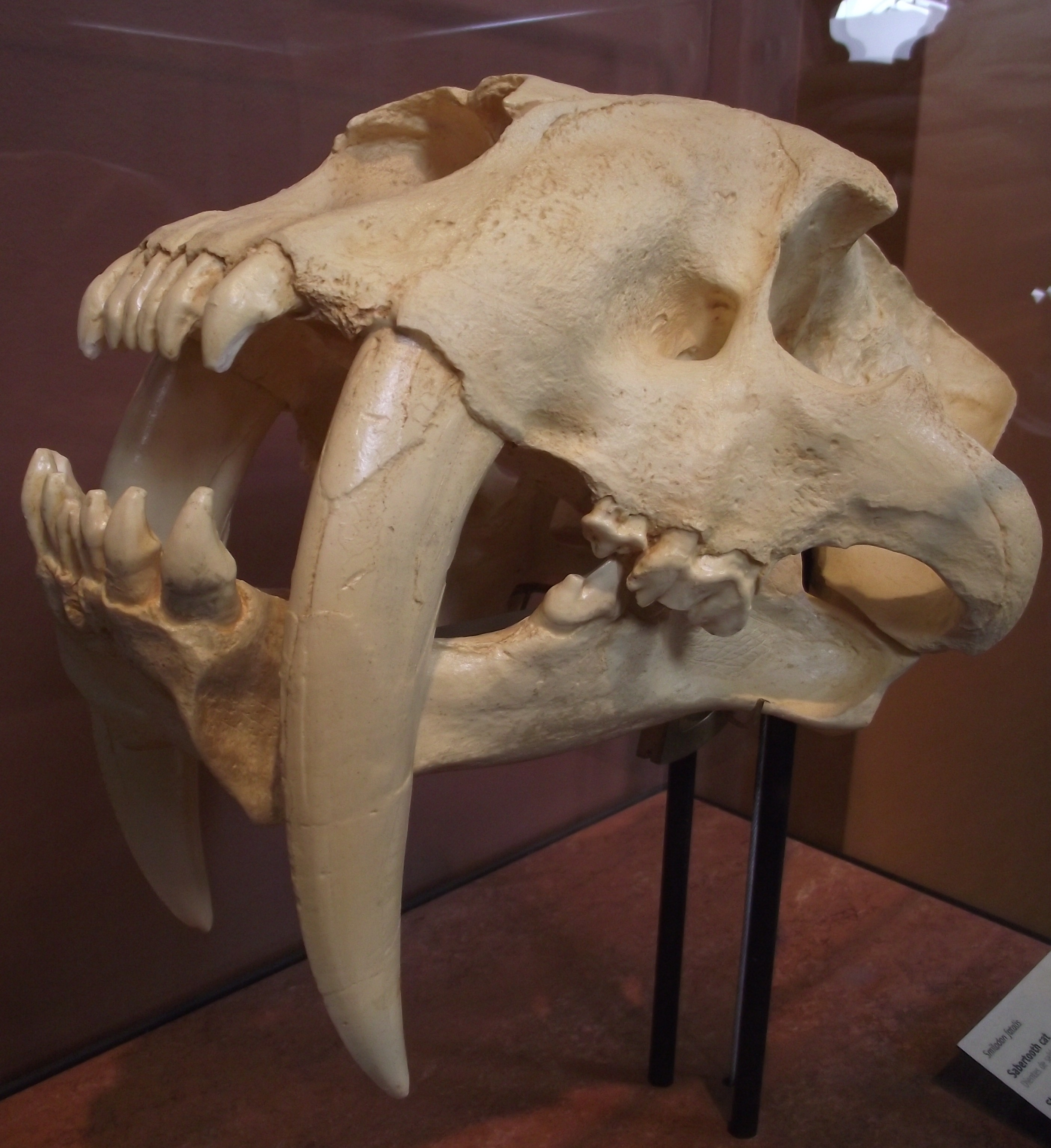 Skull cast of Smilodon fatalis. Photographed at the San Diego Natural History Museum, California, USA.